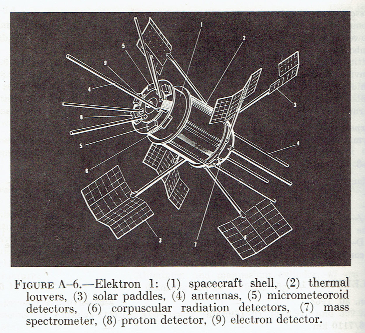 Elektron 1 with diagram notes